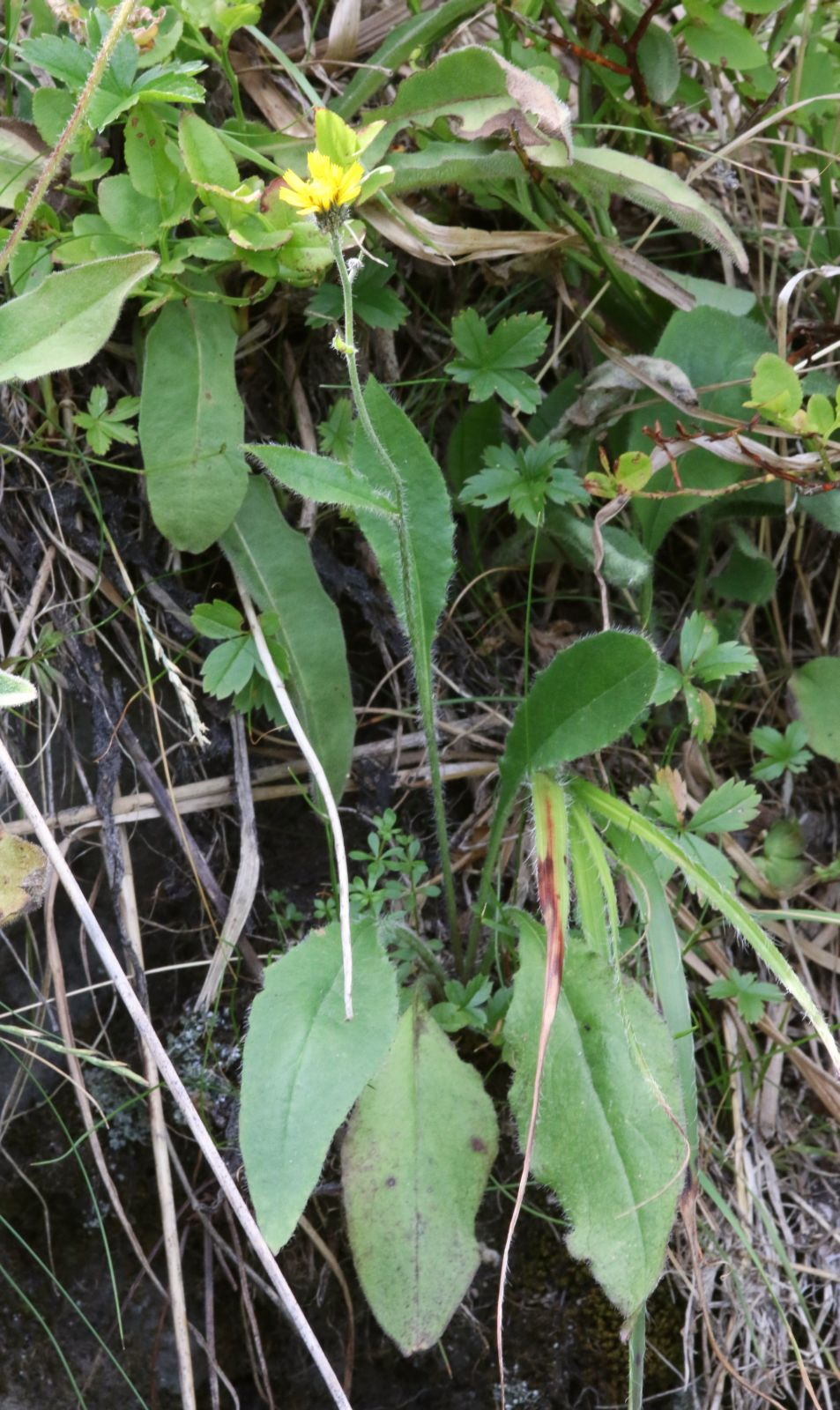 Flowering Hieracium engleri (H. carpathicum agg.), Mały Śnieżny Kocioł, Karkonosze, Poland